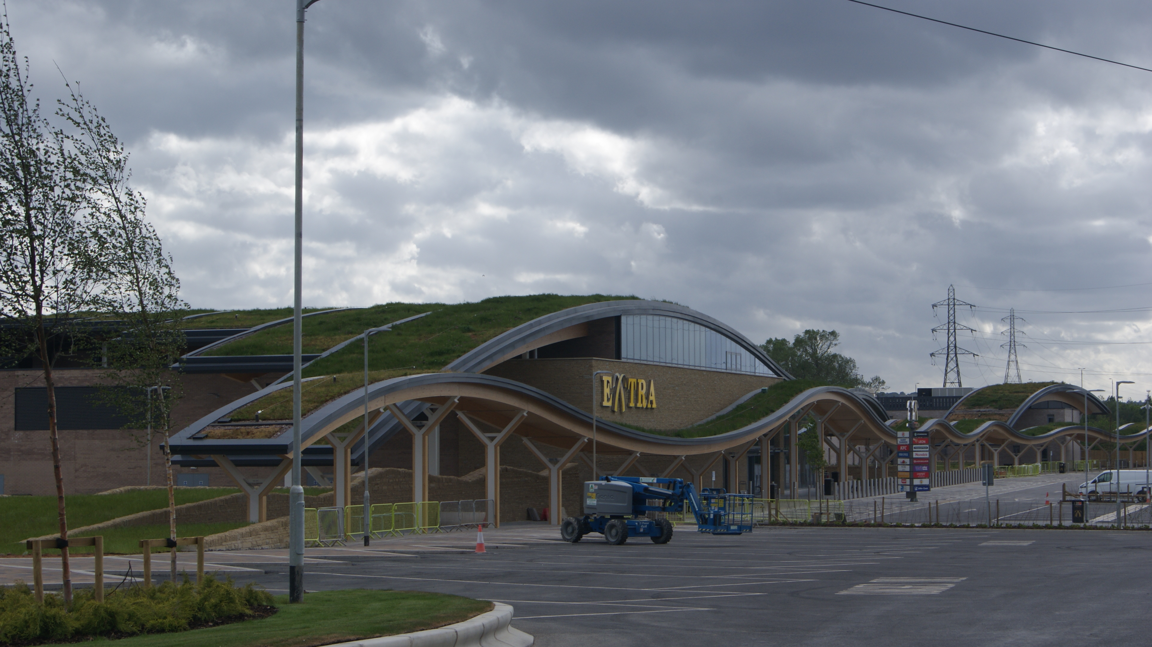 The as yet unopened Leeds Skelton Lake Services, junction 45, M1, Leeds, West Yorkshire. Taken on the evening of Saturday the 23rd of May 2020.